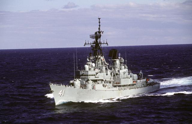 Sourced from: Details: ID: DFST9804604 Service Depicted: Air Force F3228SPT951439076 Operation / Series: IRON FIST `95 A port bow view of the guided missile destroyer HMAS Brisbane (D-41) underway. The Brisbane is steaming north for Kangaroo 95, Australia's largest joint military exercise during Iron Fist '95. Camera Operator: SRA ANDY DUNAWAY Date Shot: 24 Jul 1995